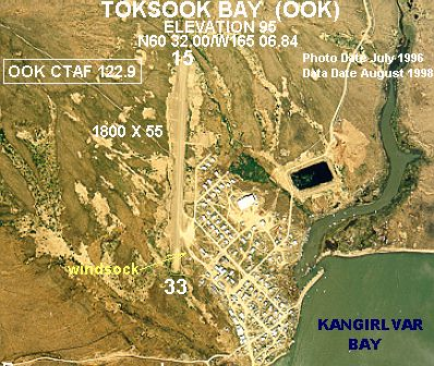 Annotated aerial photograph of Toksook Bay Airport (OOK) in Toksook Bay, Alaska, United States.